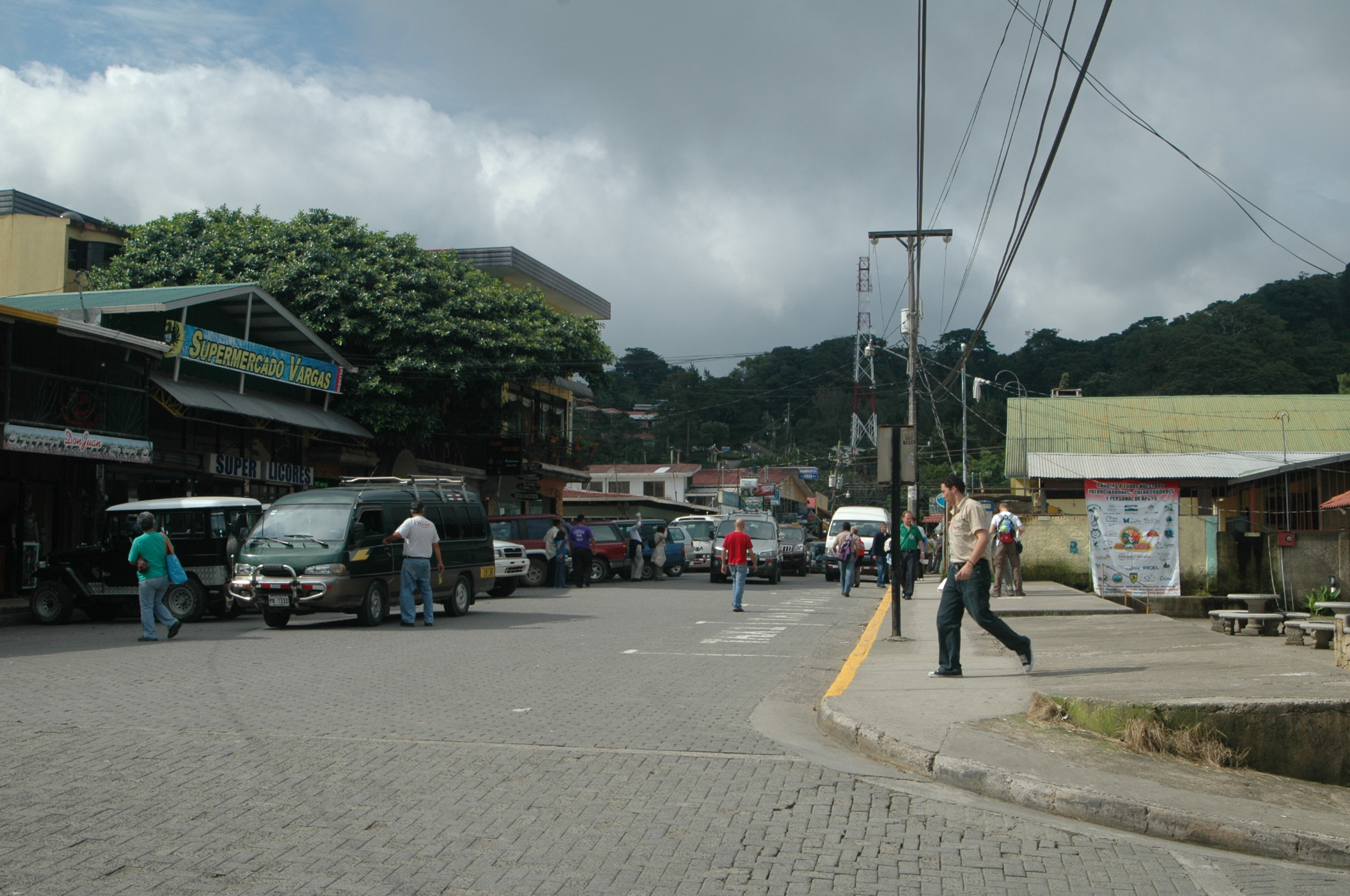 This is the main shopping area of the small town of Monteverde in Costa Rica.